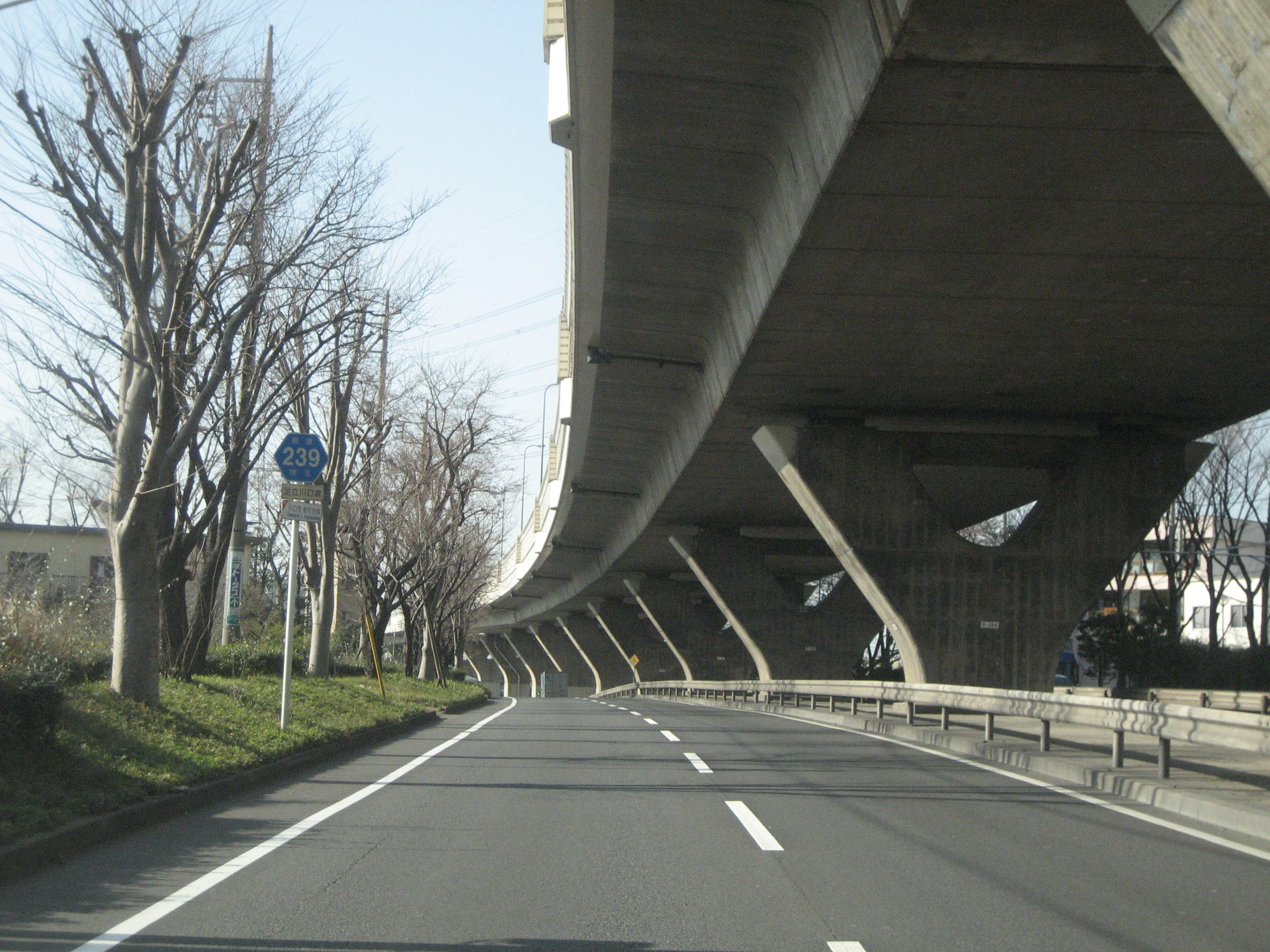 The Saitama Prefectural Road Route 239 in Kawaguchi City